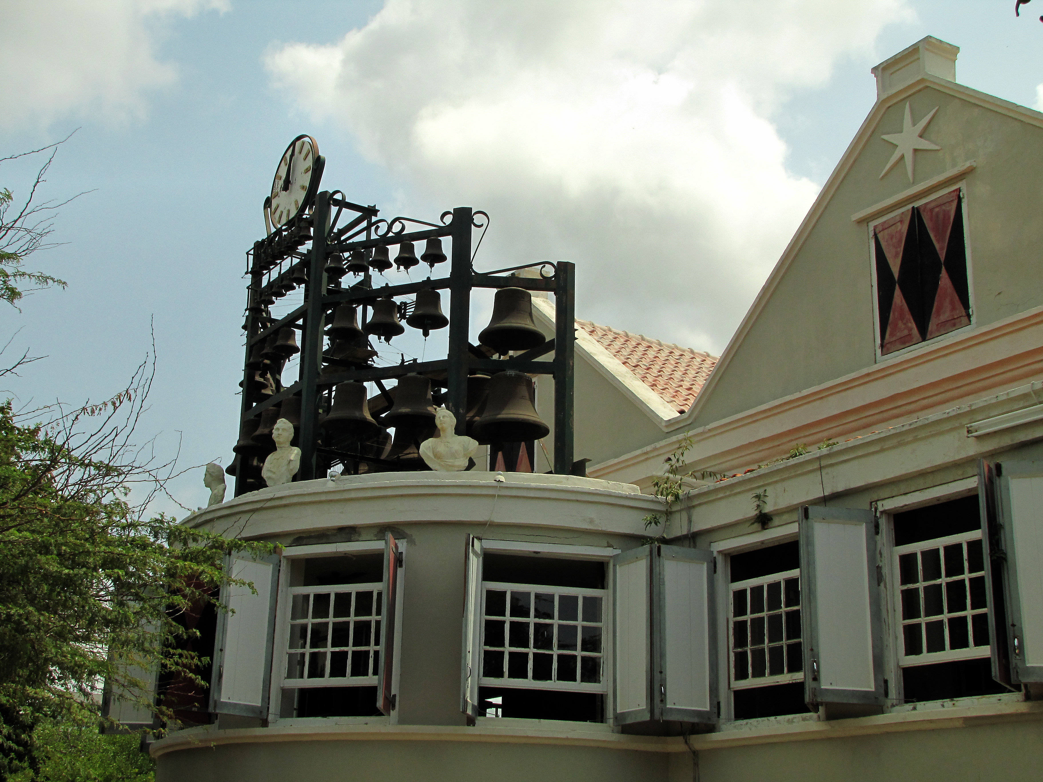 Carillon "the Queens Four Children" at the rear of the Curaçao Museum, Dutch Caribbean.